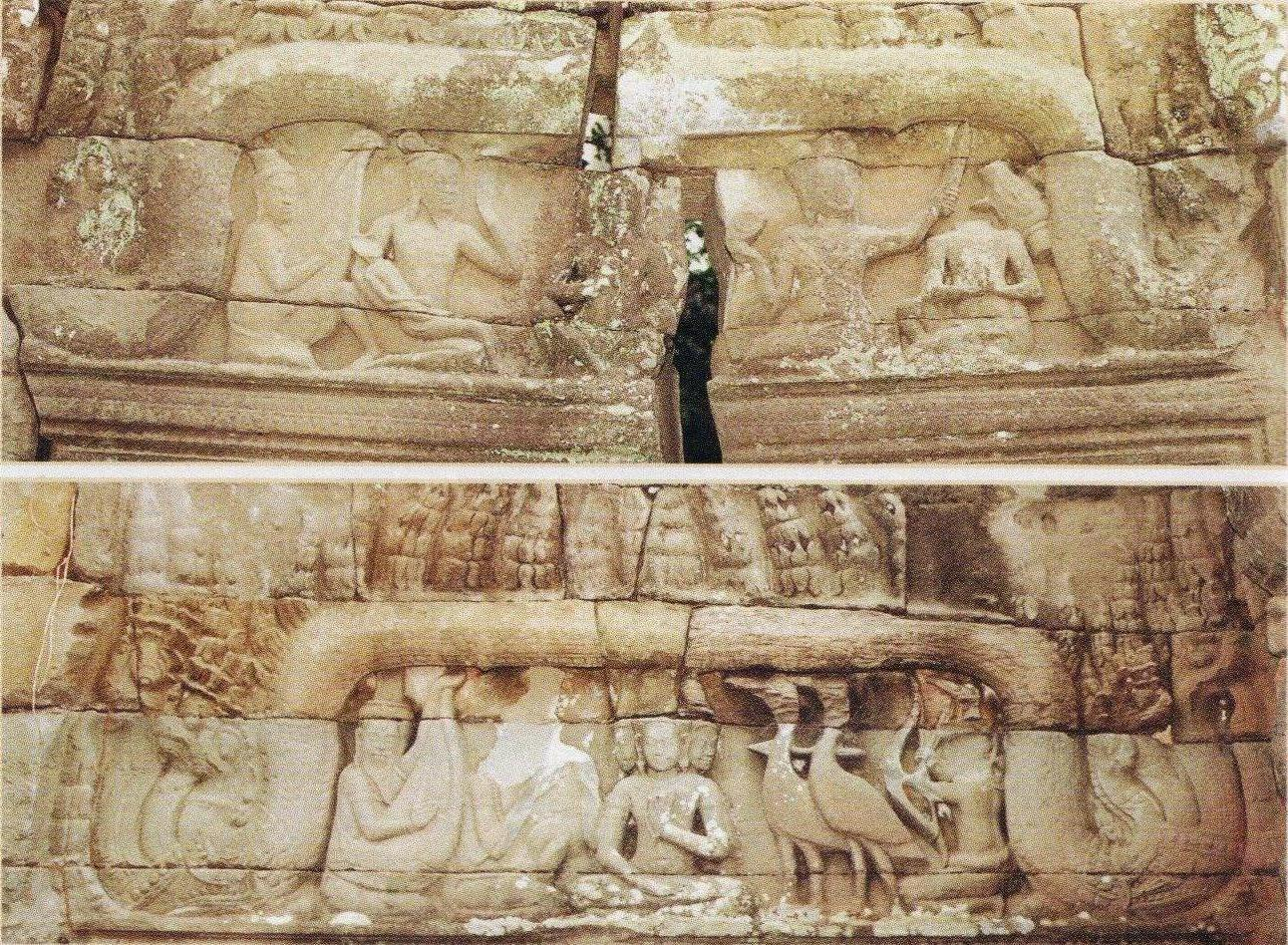 Prasat Banteay Chhmar ភាសាខ្មែរ: ផ្តែរនៅប្រាសាទបន្ទាយឆ្មា